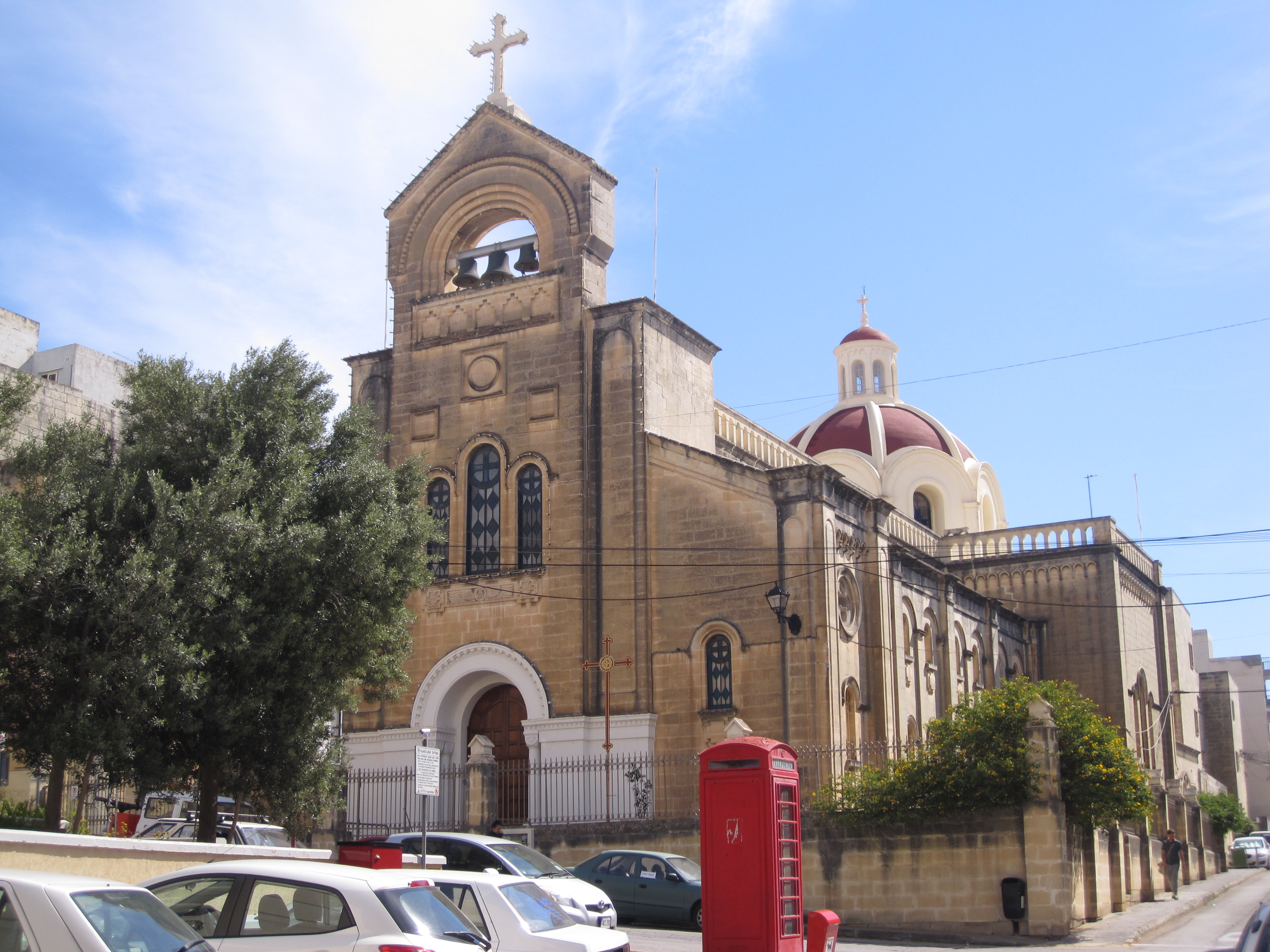 The church of Our Lady of Loreto in Pieta, Malta.